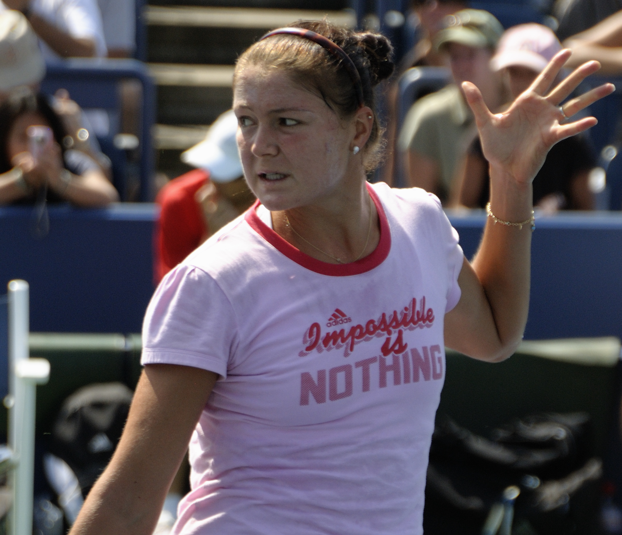 Dinara Safina at the 2009 US Open